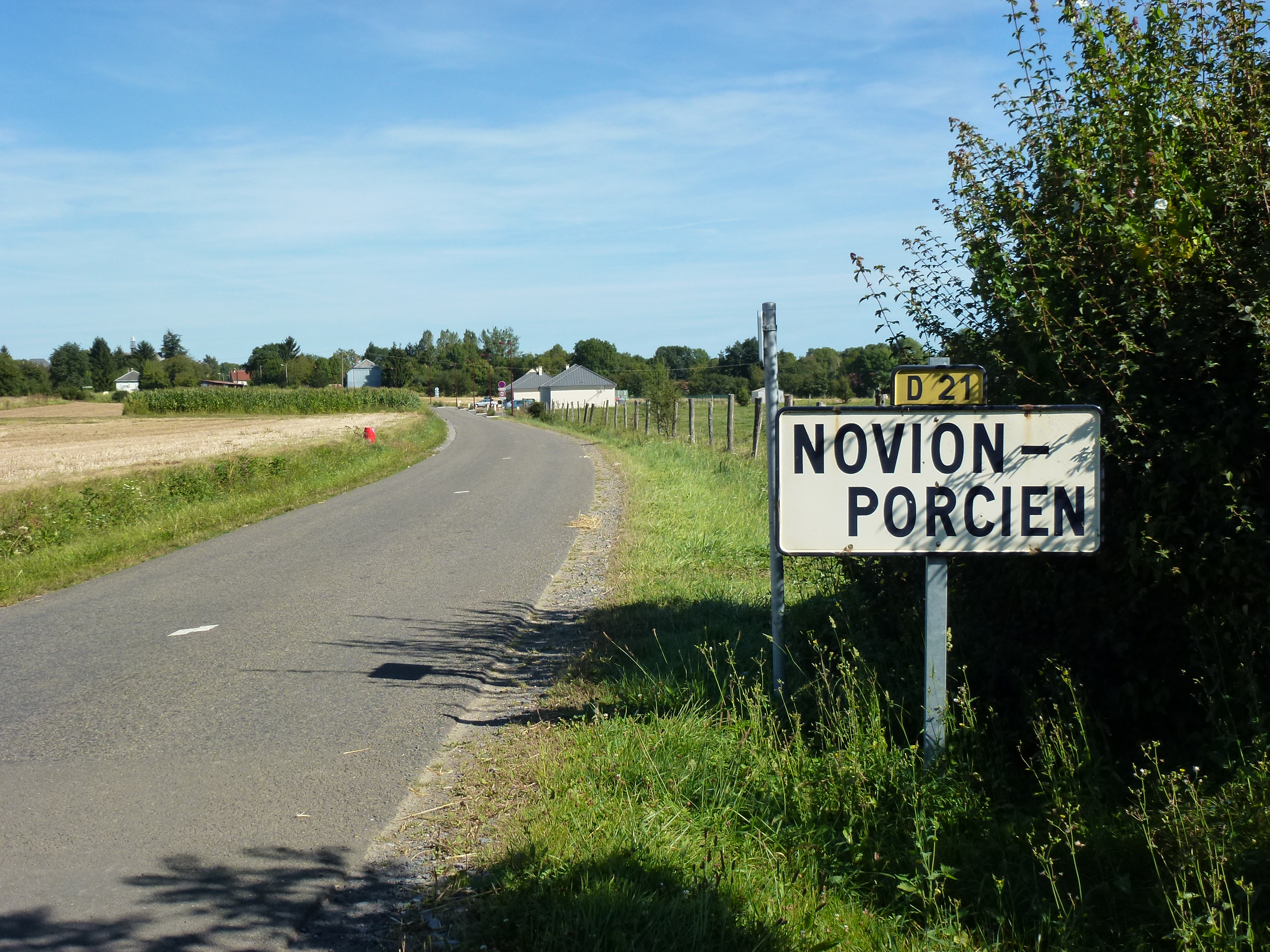 Novion-Porcien (Ardennes) city limit sign